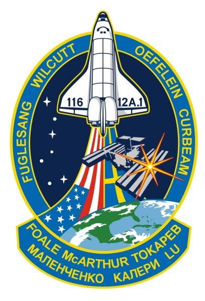 The STS-116 patch design signifies the continuing assembly of the International Space Station (ISS). The primary mission objective is to deliver and install the P5 truss element. The P5 installation will be conducted during the first of three planned spacewalks, and will involve use of both the shuttle and station robotic arms. The remainder of the mission will include a major reconfiguration and activation of the ISS electrical and thermal control systems, as well as delivery of Zvezda Service Module debris panels, which will increase ISS protection from potential impacts of micro-meteorites and orbital debris. In addition, a single expedition crewmember will launch on STS-116 to remain onboard the station, replacing an expedition crewmember that will fly home with the shuttle crew. The crew patch depicts the space shuttle rising above the Earth and ISS. The United States and Swedish flags trail the orbiter, depicting the international composition of the STS-116 crew. The seven stars of the constellation Ursa Major are used to provide direction to the North Star, which is superimposed over the installation location of the P5 truss on ISS. This is the Version from 2002which shows the names of the crew selection on this date. The crew was changed later on.